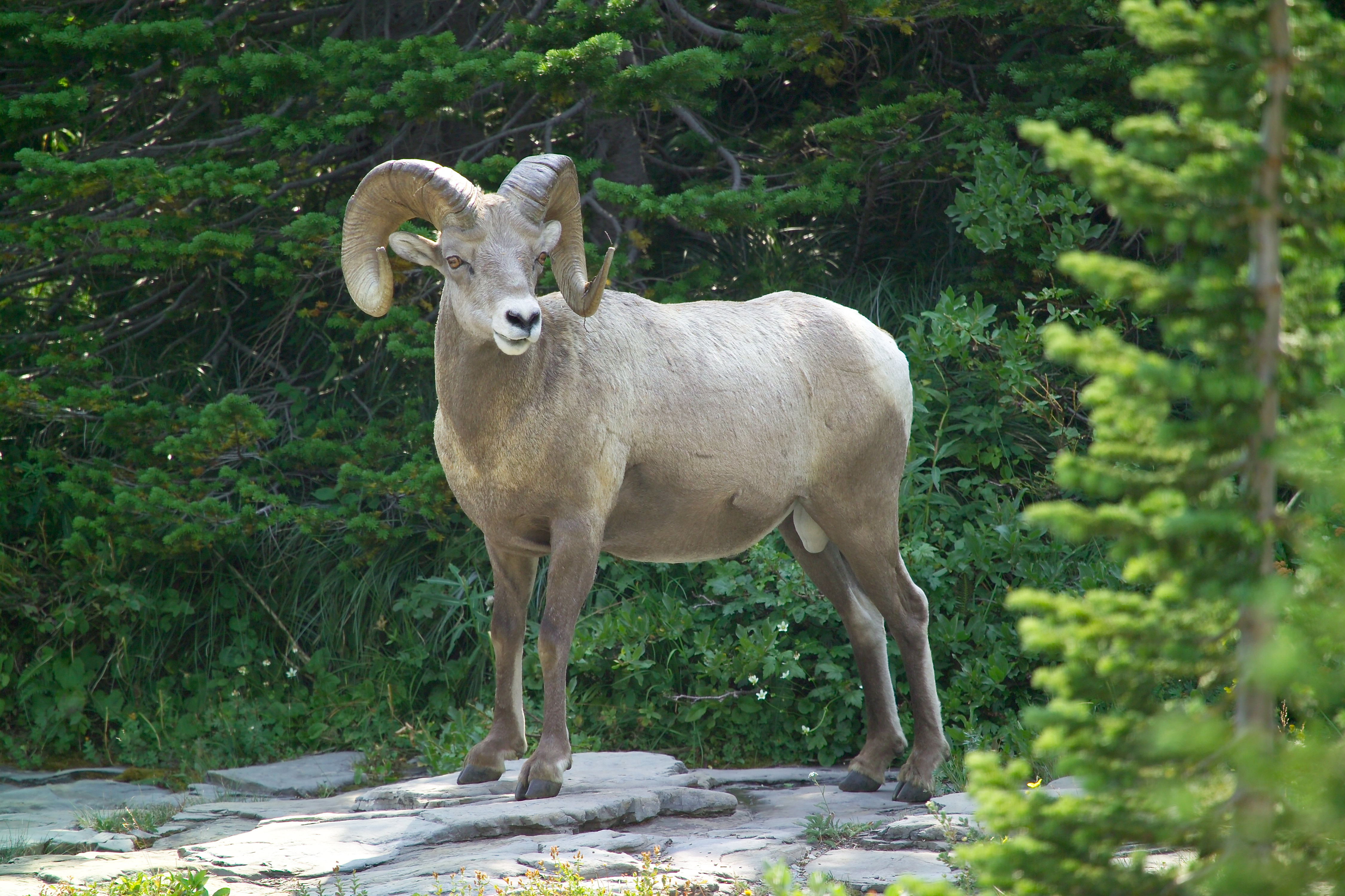 Bighorn sheep move in groups in Glacier's alpine and east side. Rams grow enormous horns (which differ from antlers in that they do not drop off yearly) that they use to batter each other during the rut every fall in competitions for mates. Photo: David Restivo, NPS